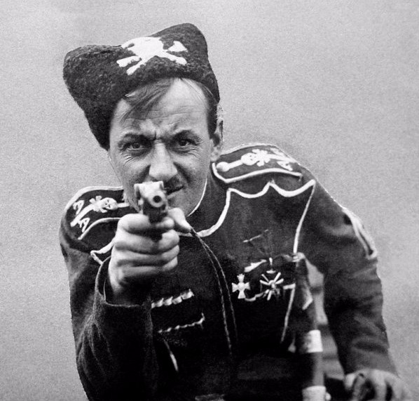 Георгий Пожарницкий в роли белогвардейца. Кадр из кинофильма "Красный газ" 1924 года.